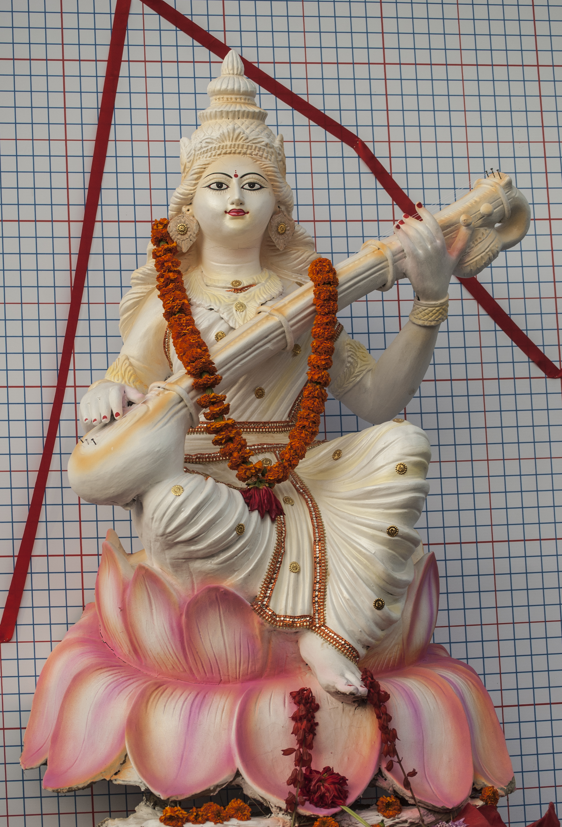 Devi Saraswati is the Hindu goddess of knowledge, music, arts, wisdom and learning.